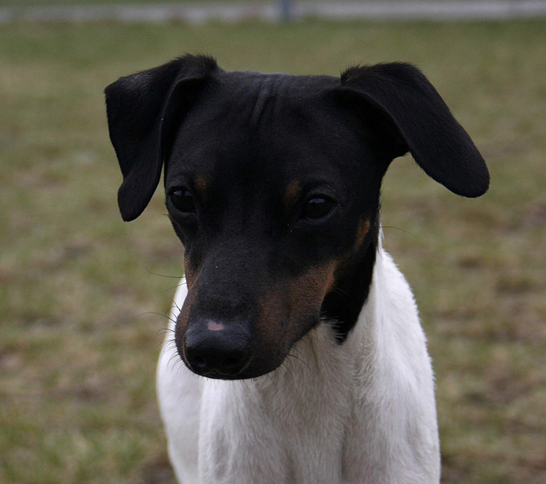 At photo Amakakeru-Meiji White Oleander - Japanese Terrier on dogs show in Konopiska, Poland. The owner is Paweł Gąsiorski.